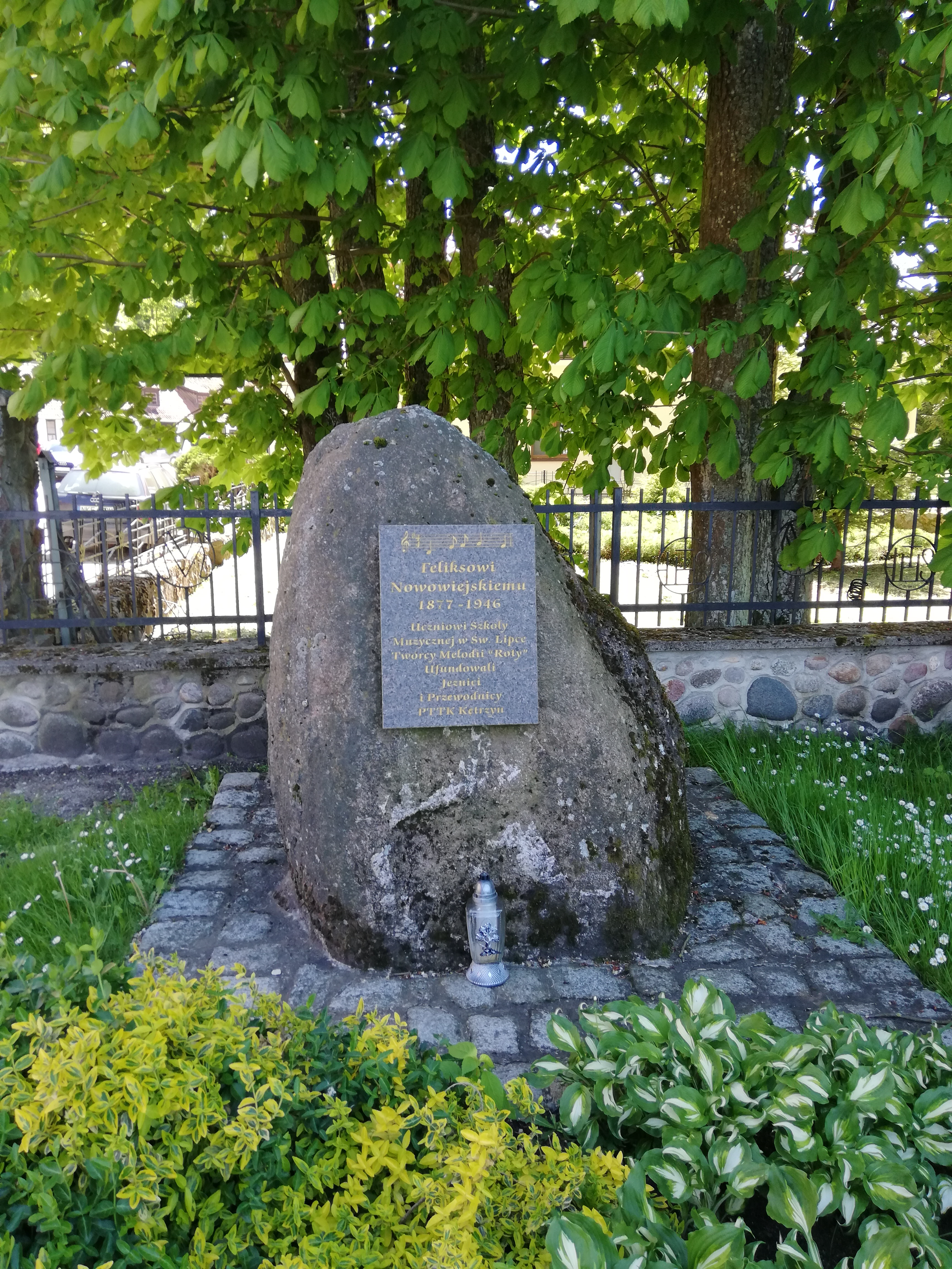 Nowowiejski Feliks - Commemorative plaque in Święta Lipka, general view